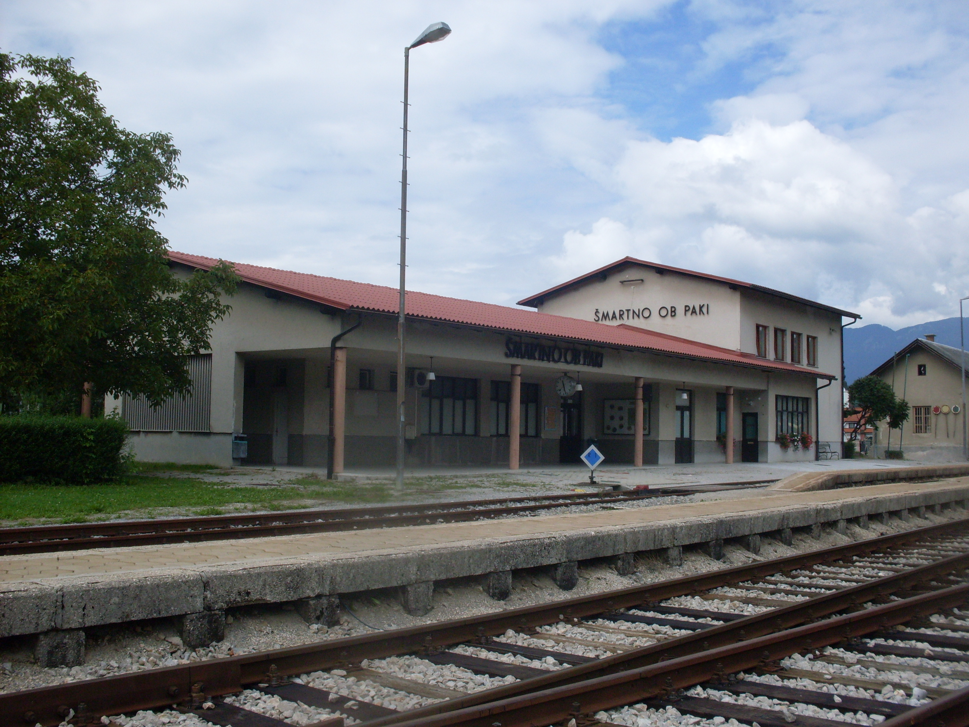 Train station in Šmartno ob Paki